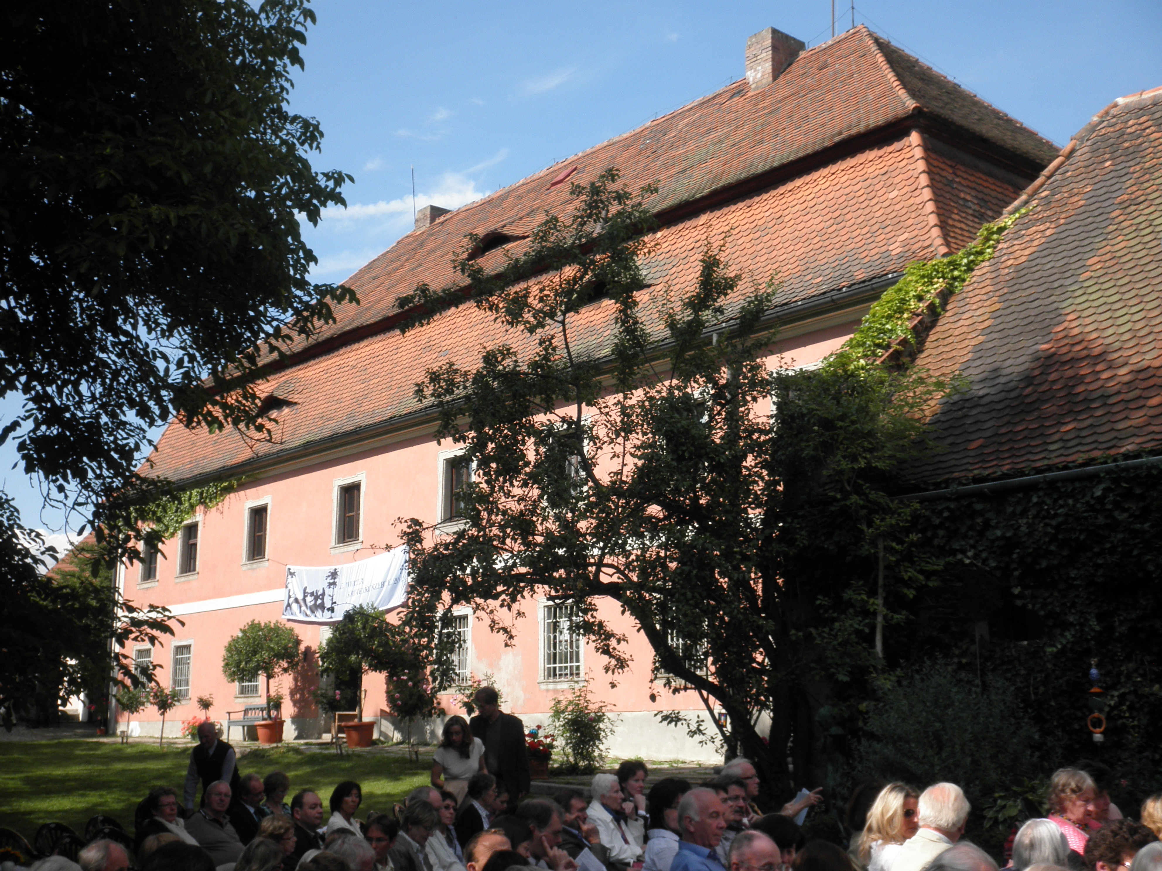 Parsonage in Wurz (Püchersreuth) in Bavaria